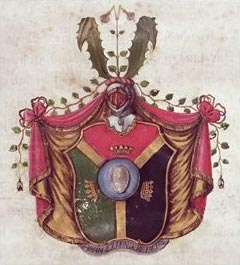 Coat of Arms of Carl von Linné (Carolus Linnaeus), from his Letter of Nobility. The crest is a twinflower, one of Linnaeus' favourite plants. The shield is divided into thirds: red, black and green for the three kingdoms of nature (animal, mineral and vegetable) in Linnaean classification; in the center is an egg "to denote Nature, which is continued and perpetuated in ovo". Motto: FAMAM EXTENDERE FACTIS "to expand fame/reputation by deeds".